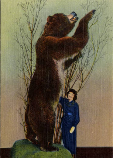 Miniature postcard view of a woman standing next to a taxidermied Kodiak bear.